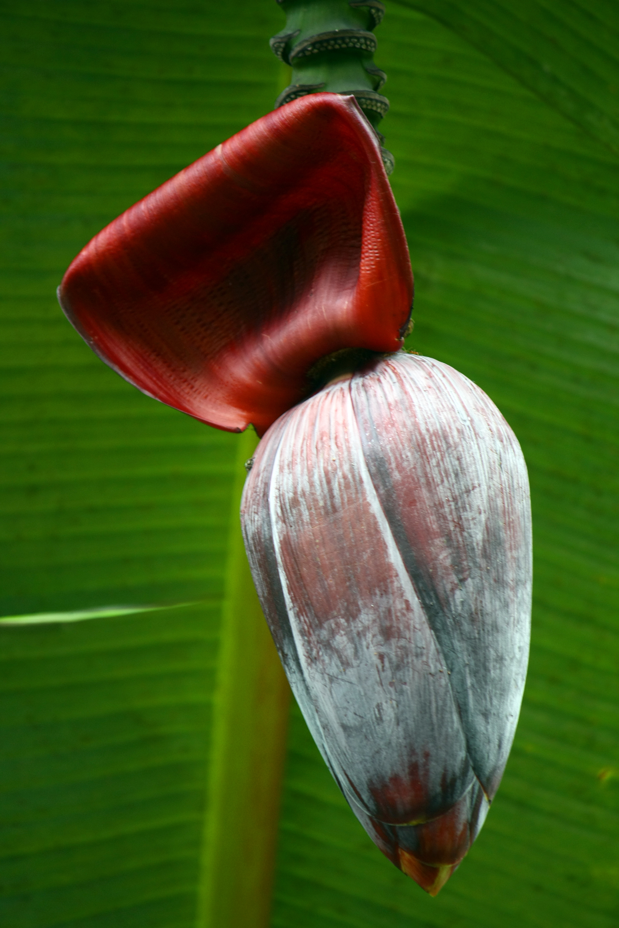 Banana inflorescence